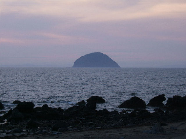 Ailsa Craig at sunset. Taken at sunset on a lovely September evening from the shore near Lendalfoot.